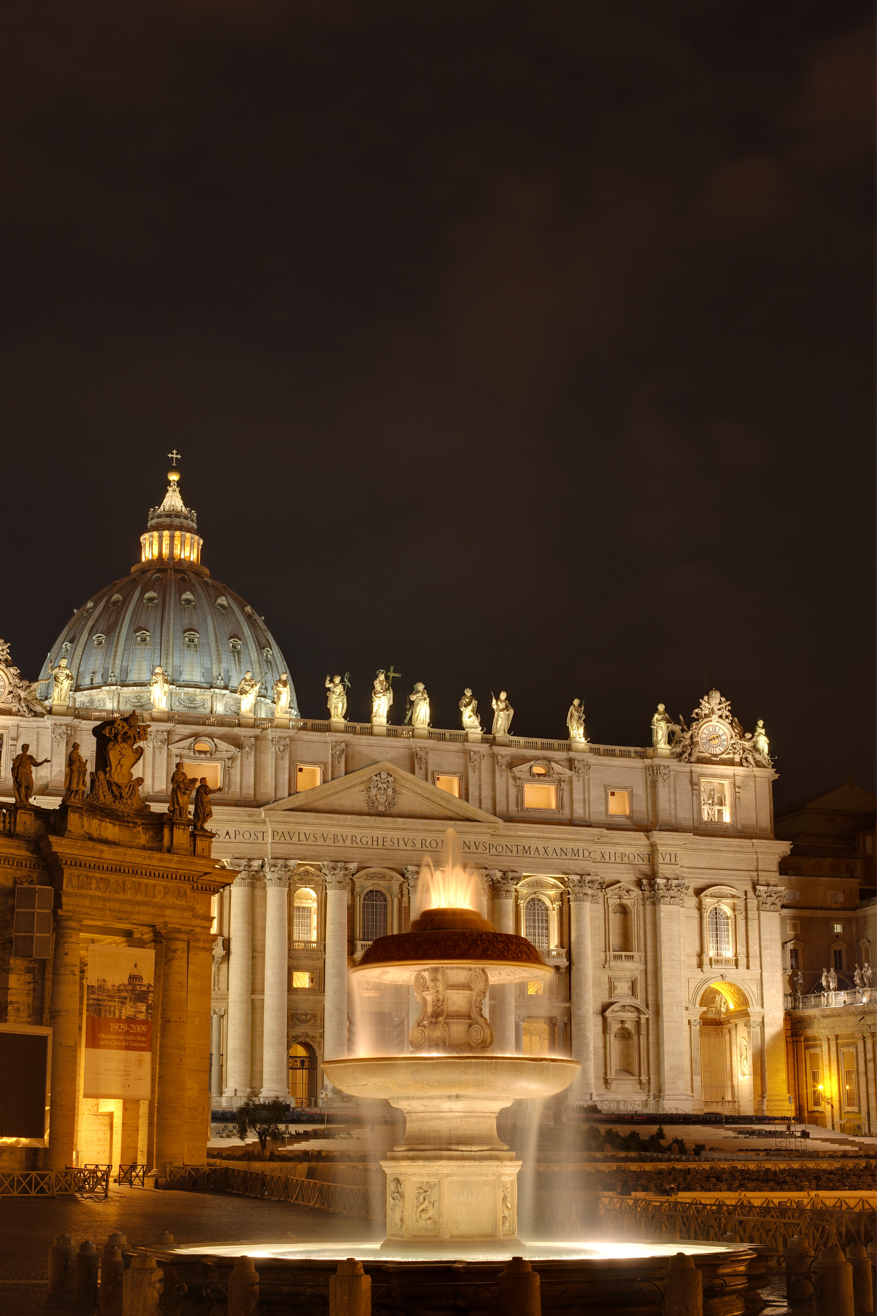 Left (southern) fountain on Piazza San pietro